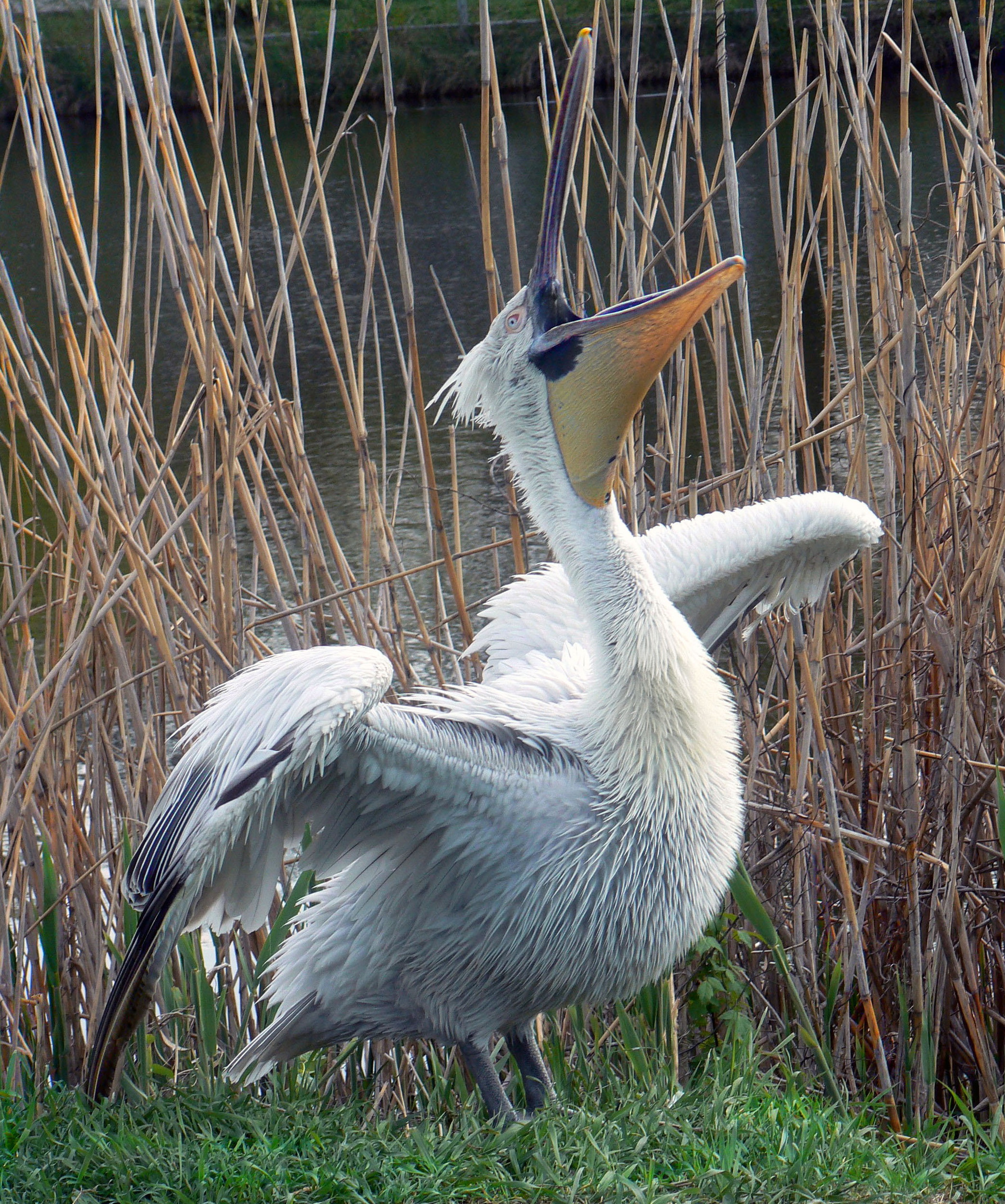 Dalmatian Pelican( Pelecanus crispus ) in the zoo, Rostov-on-don, Russia.